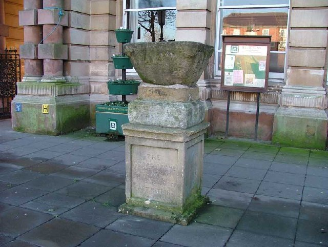 The Broadstone Retford. Moved from Dominie Cross Road, where it was used to disinfect money